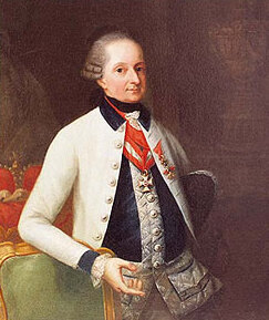 Portrait in the uniform of his Hungarian Infantry Regiment No. 33.